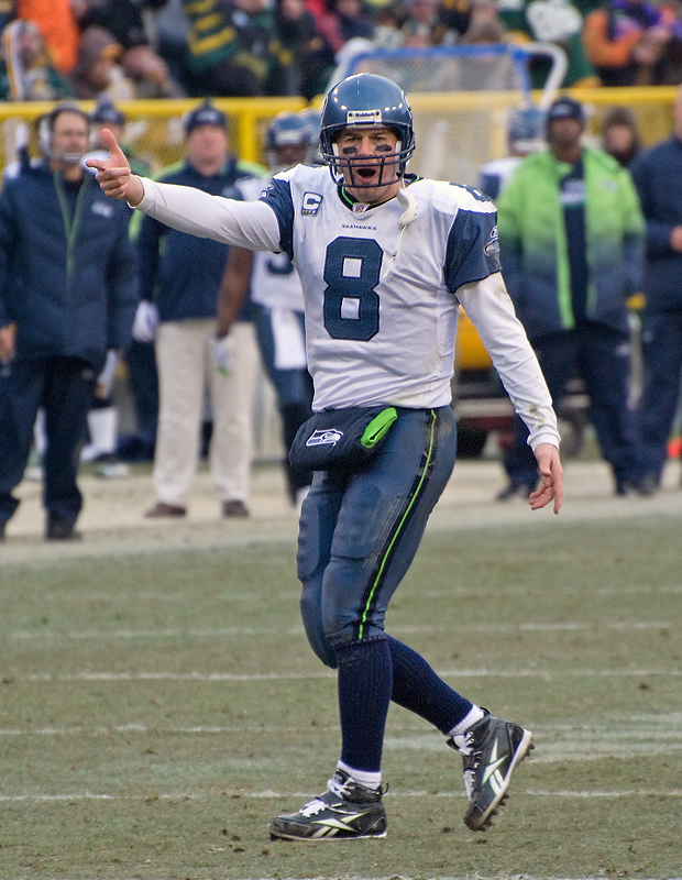 Seattle vs. Green Bay • December 27, 2009 at Lambeau Field in Green Bay, Wisconsin.